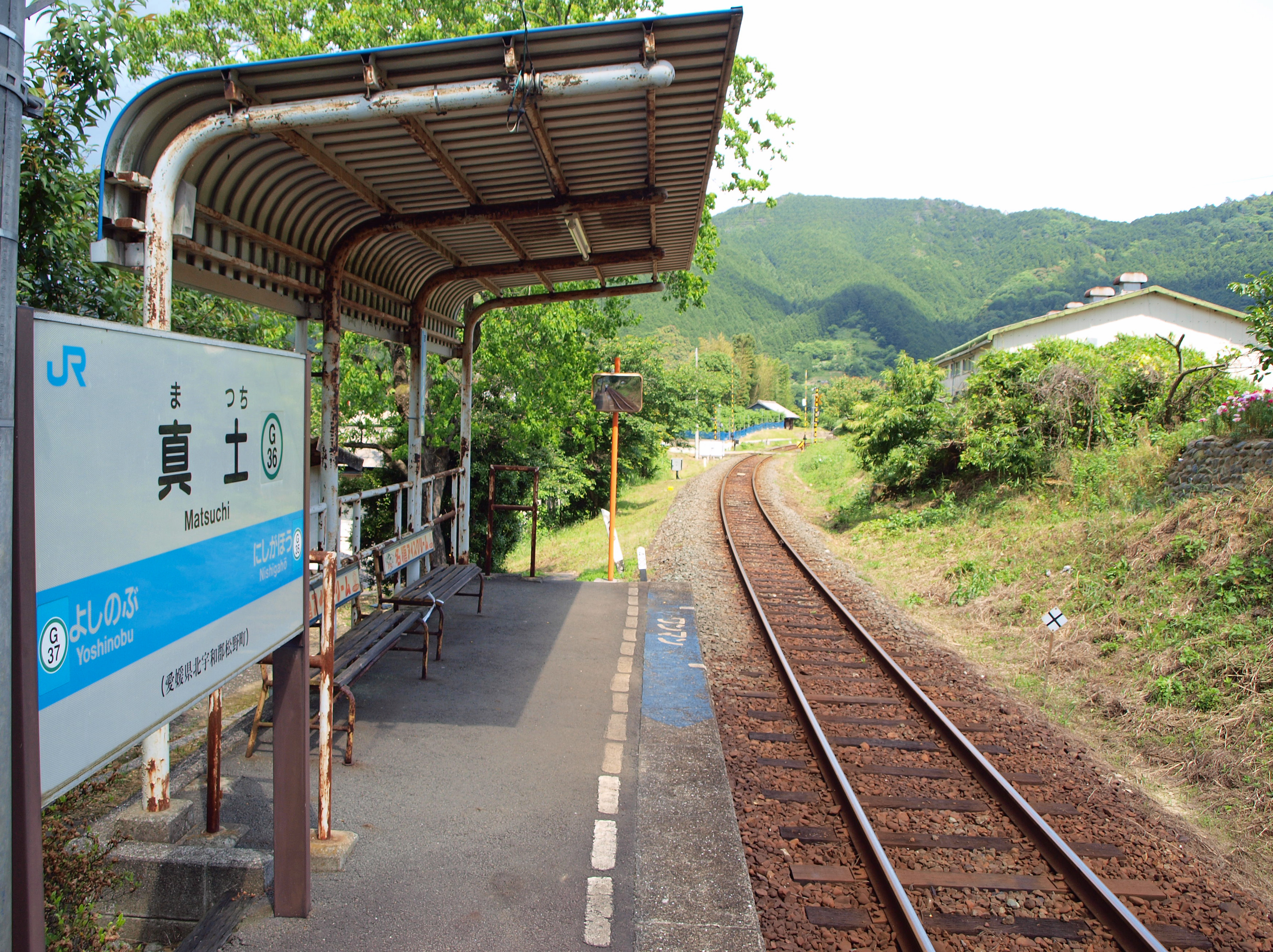 Matsuchi station, Yodo-line, JR Shikoku, Japan